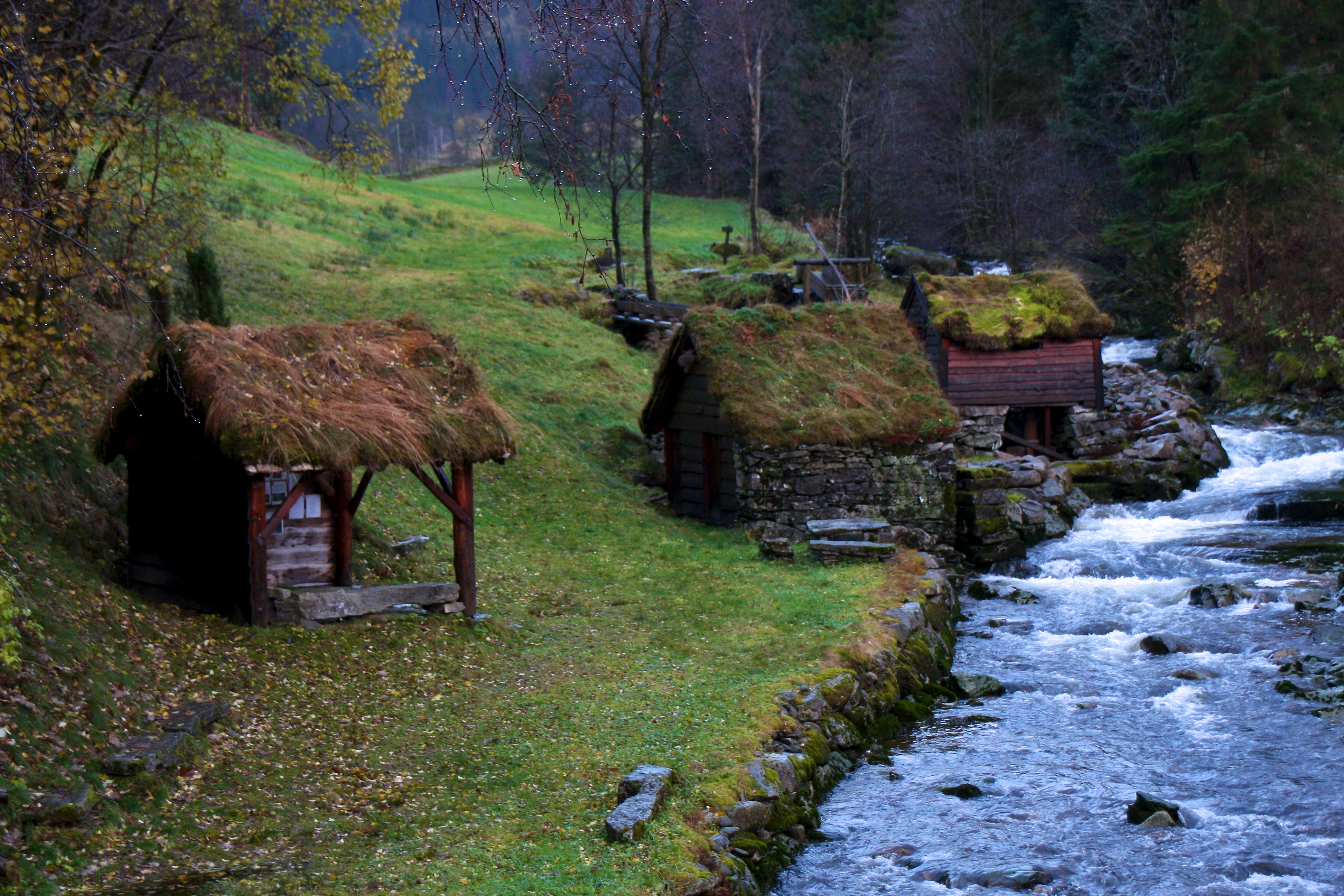 Takle in Gulen municipality, Norway.